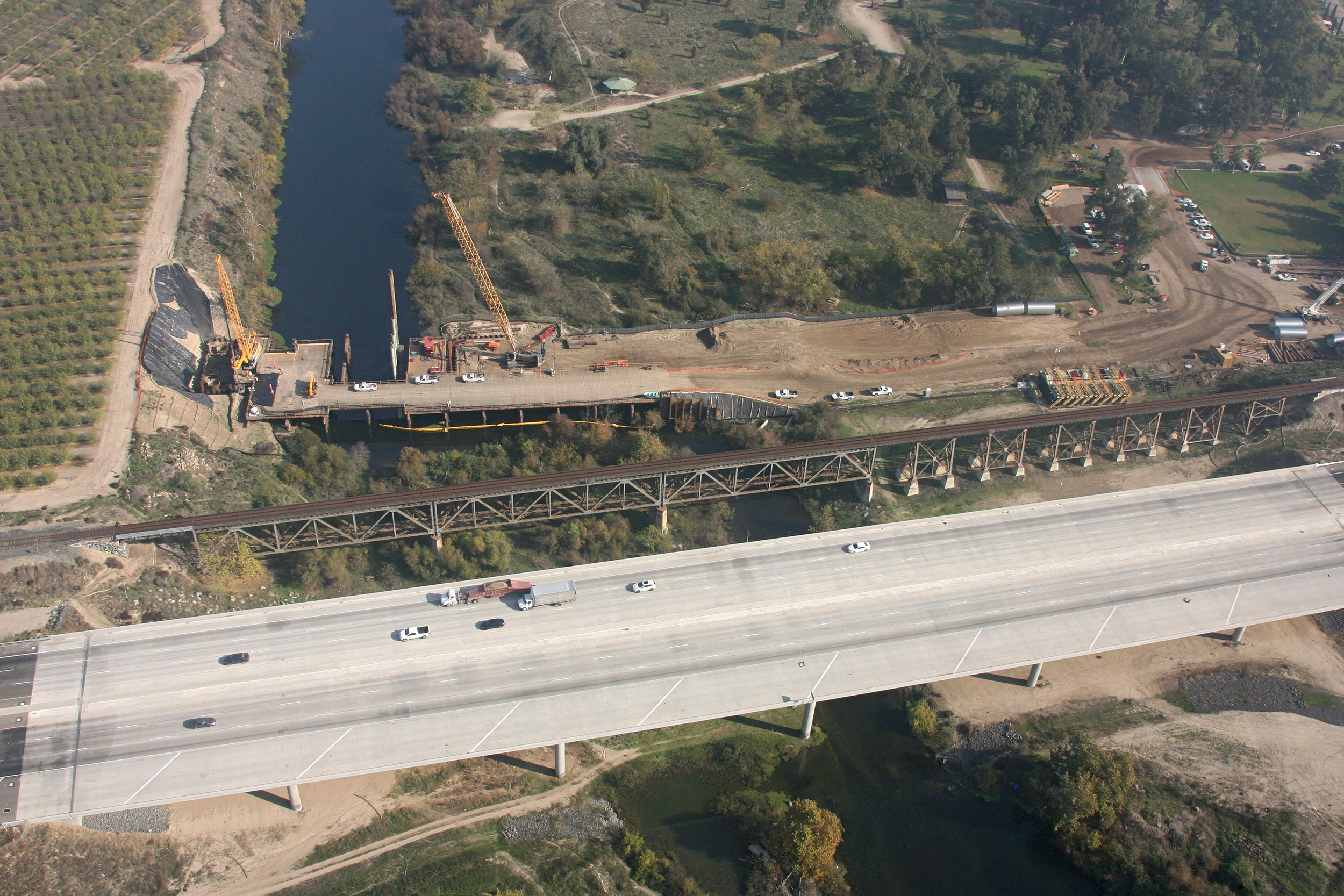 Aerial photograph of California High-Speed Rail's San Joaquin River Viaduct over the San Joaquin River in a early stage of construction in November 2016. A temporary platform has been erected to aid in construction of the viaduct. The existing Union Pacific Railroad and California State Route 99 bridges are also visible.